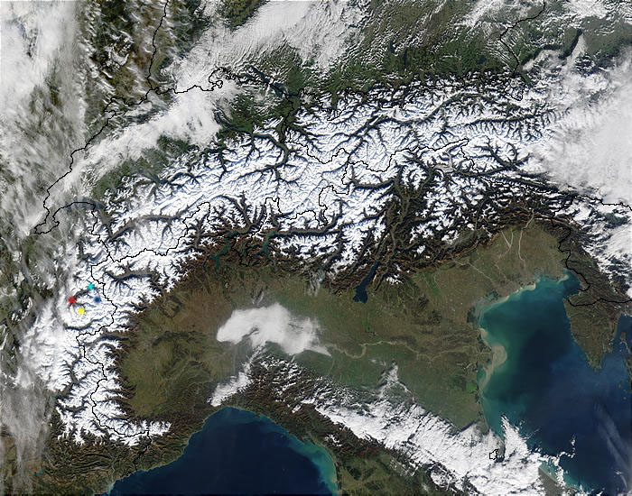 De position of the Tarentaise in the Alps, with the significant places: red=Moutiers, light blue=Bourg St. Maurice, yellow=Val Thorens, and dark blue=Val D'Isère